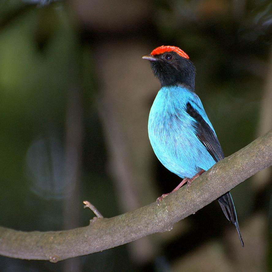 Blue Manakin TANGARÁ (Chiroxiphia caudata) Parque Estadual da Serra da Cantareira - São Paulo-SP Noise, subject not entirely in focus (insufficient DOF)